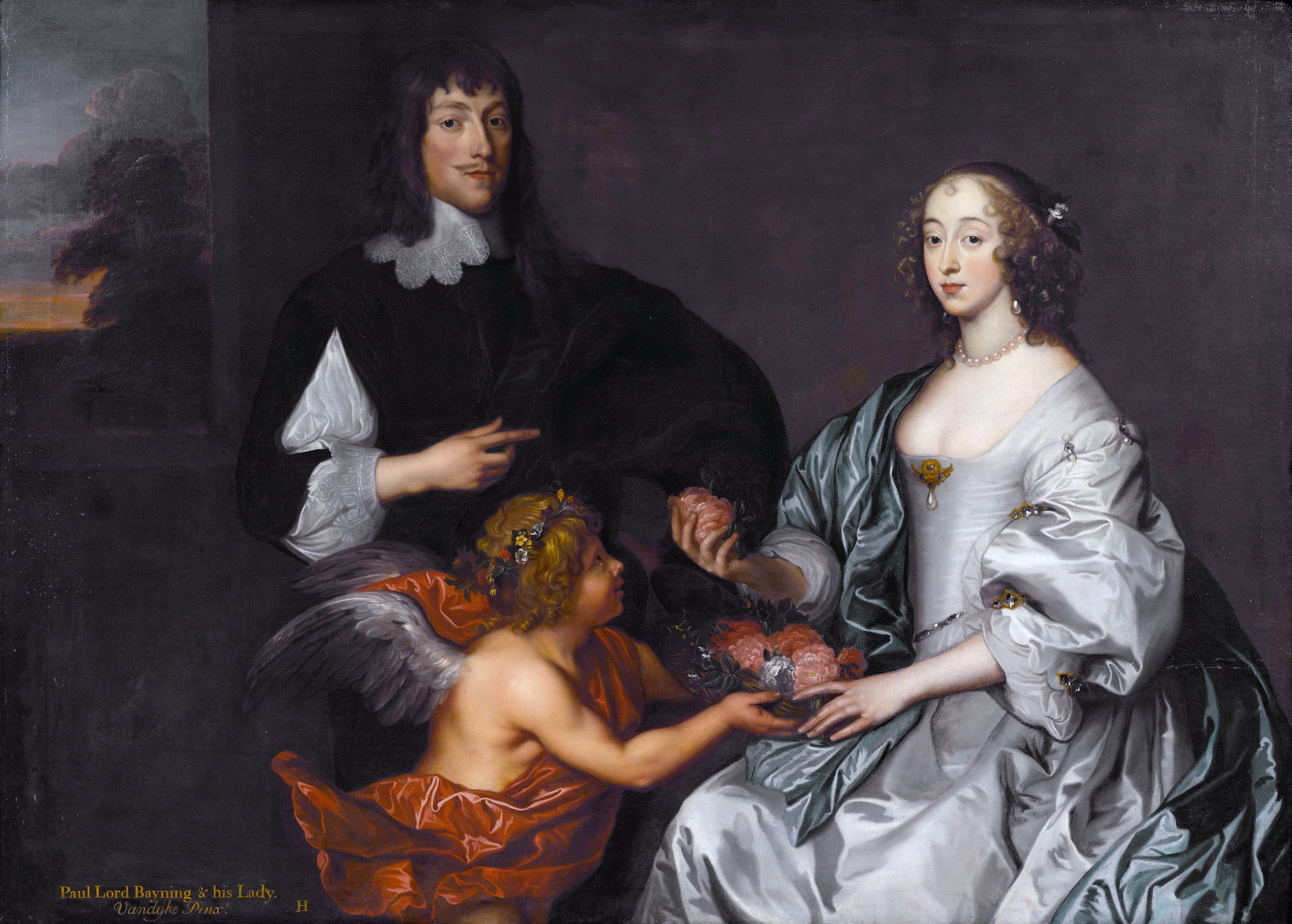 Paul Bayning, 2nd Viscount Bayning of Sudbury and Penelope (1620-1647) daughter of Sir Robert Naunton oil on canvas 131.4 x 183.5 cm inscribed b.l.: Paul Lord Bayning & his Lady / Vandyke Pinxit / H